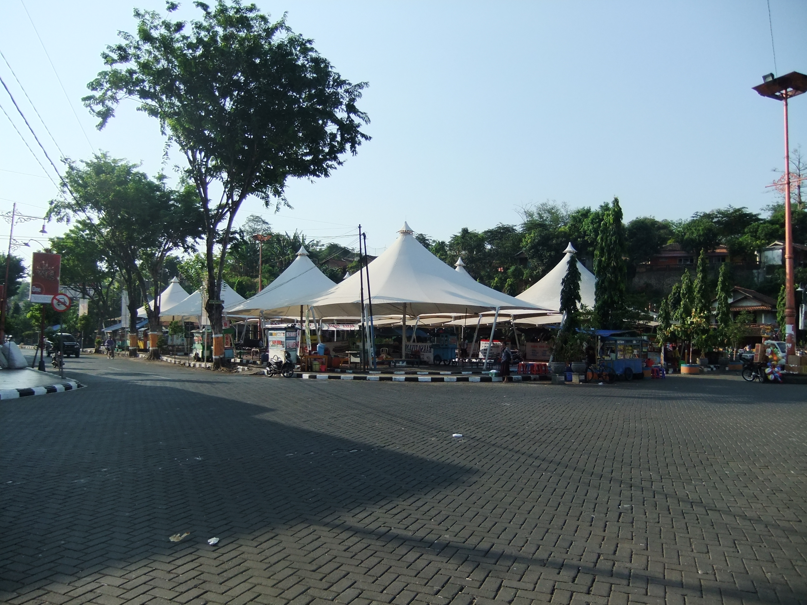 Large foodcourt in Jepara